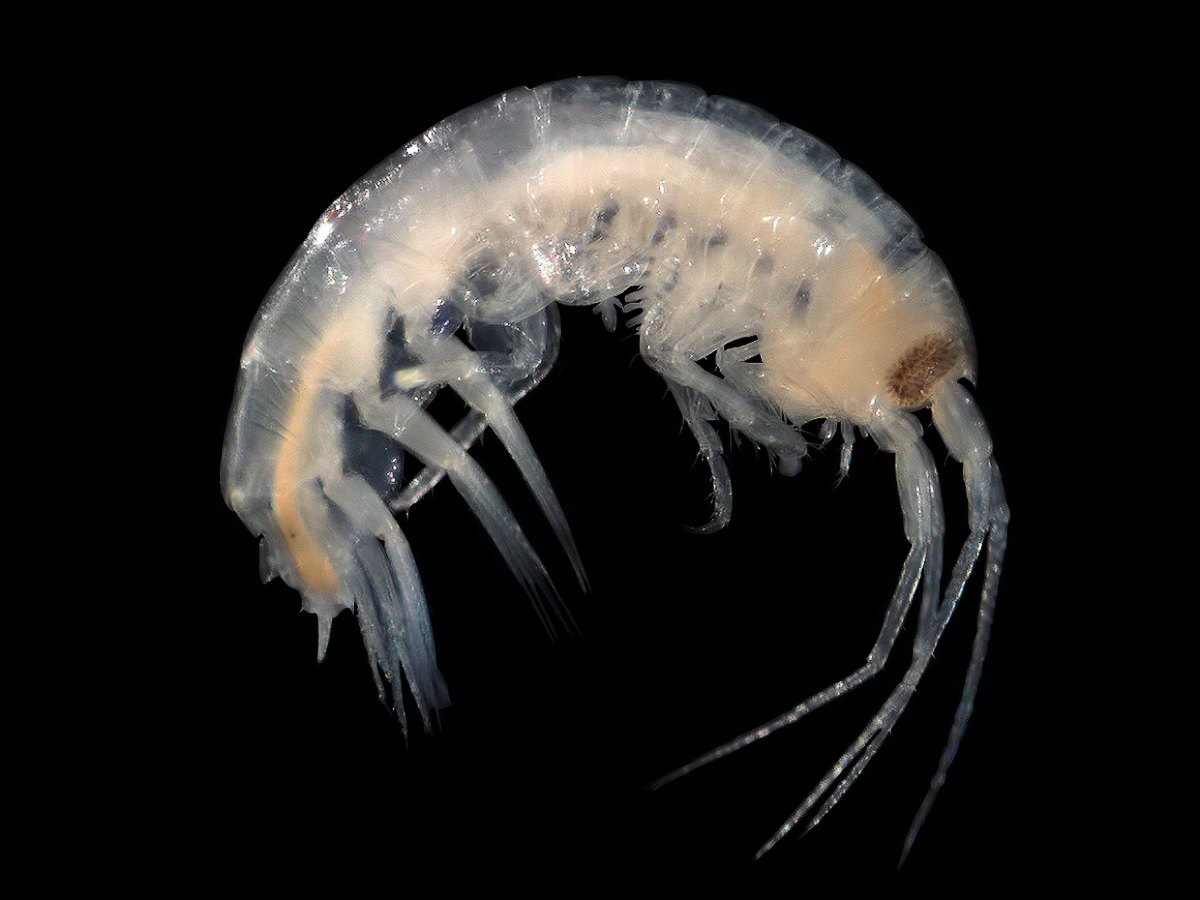 Belgian Continental Shelf. Camera mounted on a Zeiss Stemi C-2000 binocular microscope. Length: ∼4 mm. Geo-location not applicable as the picture was taken in the lab. Note the typically deeply pleated coxal gills.